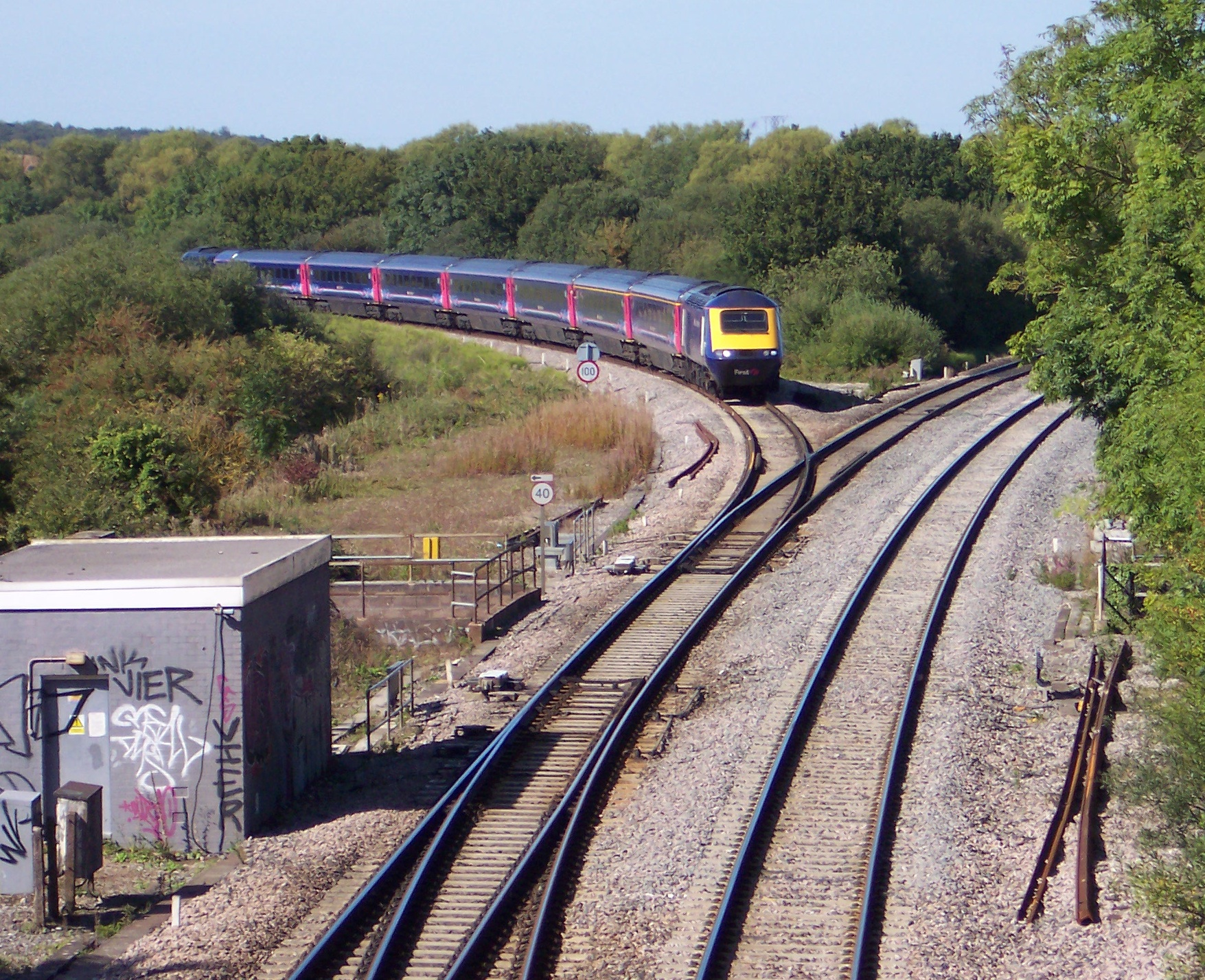 An HST leaves the eastern end of the Cotswold Line at Wolvercote Junction.